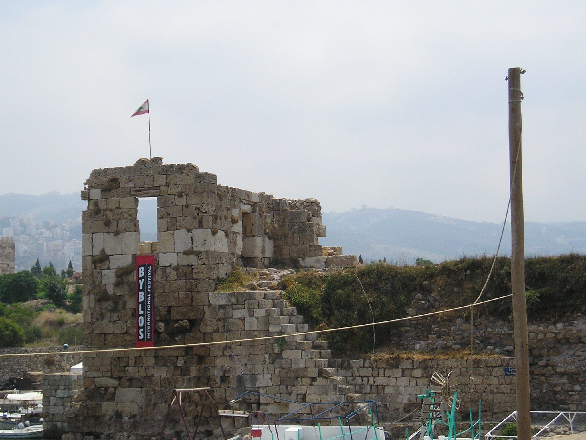 Byblos, Lebanon - a tower at the harbour